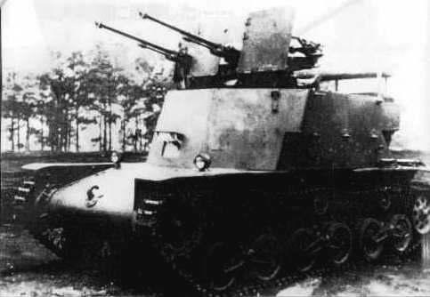 Type 98 Ho-Ki, a self-propelled anti-aircraft gun with twin Type 98 20-mm-guns of the Imperial Japanese Army.